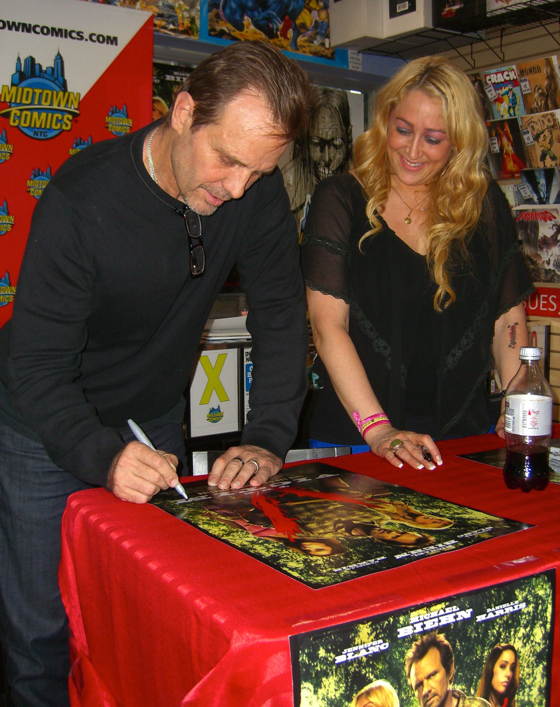 Actor/director Michael Biehn (The Terminator, Aliens, The Abyss) and his wife, actress Jennifer Blanc, at an August 23, 2012 appearance at Midtown Comics Downtown in Manhattan to promote Biehn’s directorial debut, the horror film The Victim, in which both Biehn and Blanc star. This photo was created by Luigi Novi. It is not in the public domain, and use of this file outside of the licensing terms is a copyright violation.